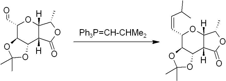 A typical example of the Wittig reaction, taken from Snider et al, Org. Lett. 2006, 8, 2123-6.